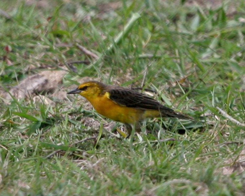 Saffron-cowled blackbird Xanthopsar flavus female Location: Iberá Wetlands, Argentina April 4, 2006